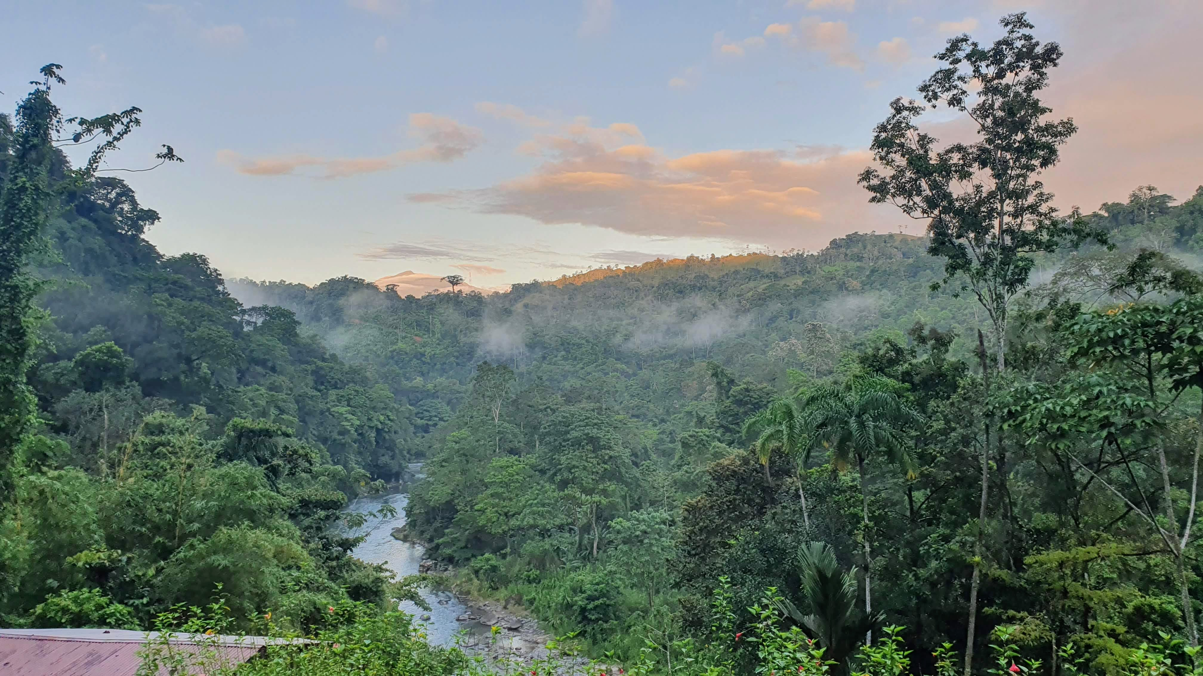 The photo shows a view from the Ave Sol River Sanctuary down to the River Pacuare with the volcano Turrialba in the background.